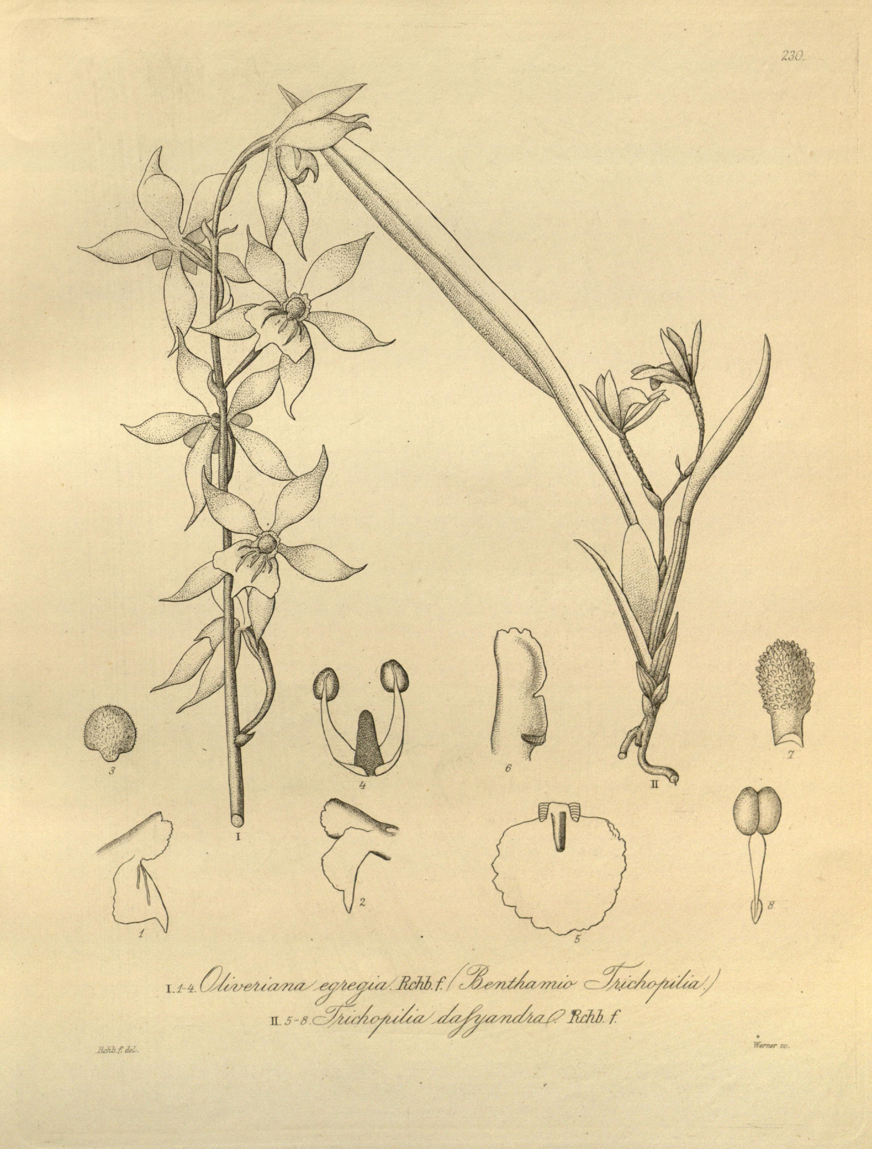 Illustration of I, 1-4. Oliveriana egregia II, 5-8. Cischweinfia dasyandra (as syn. Trichopilia dasyandra)